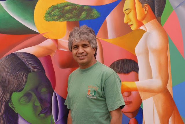 Picture taken with his famous painting